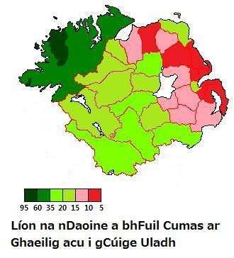 This is my image - I made it. It is available on my online blog, which I wrote at or more specifically, at It is entirely my work, and I hereby give permission for anyone to use it.